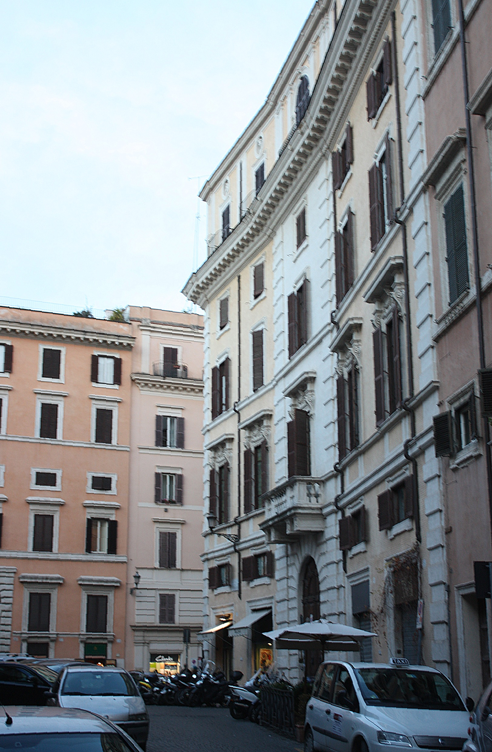 Rome, the street Via di Sant'Eustachio